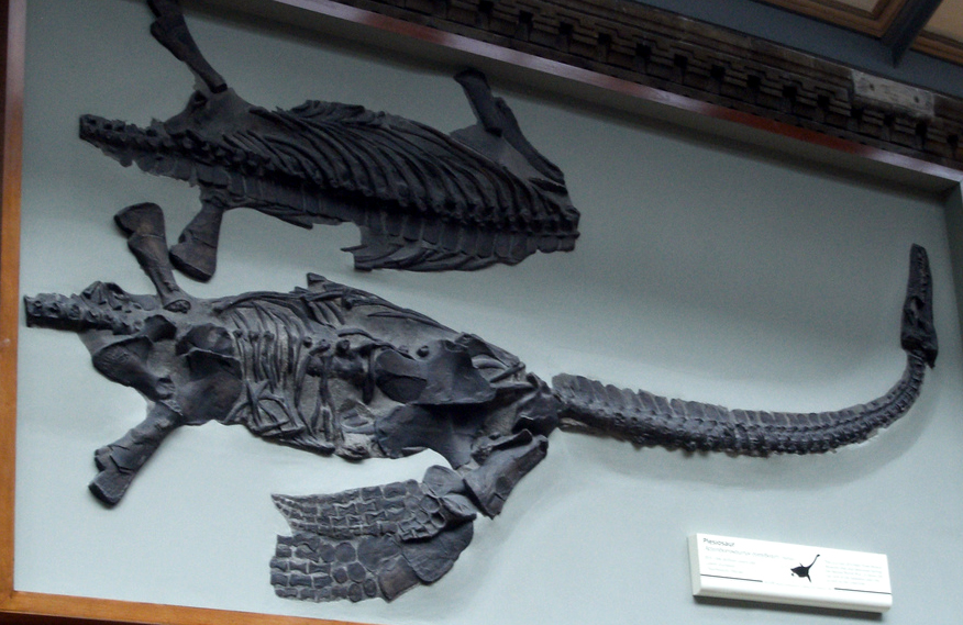 Attenborosaurus Natural History Museum, London